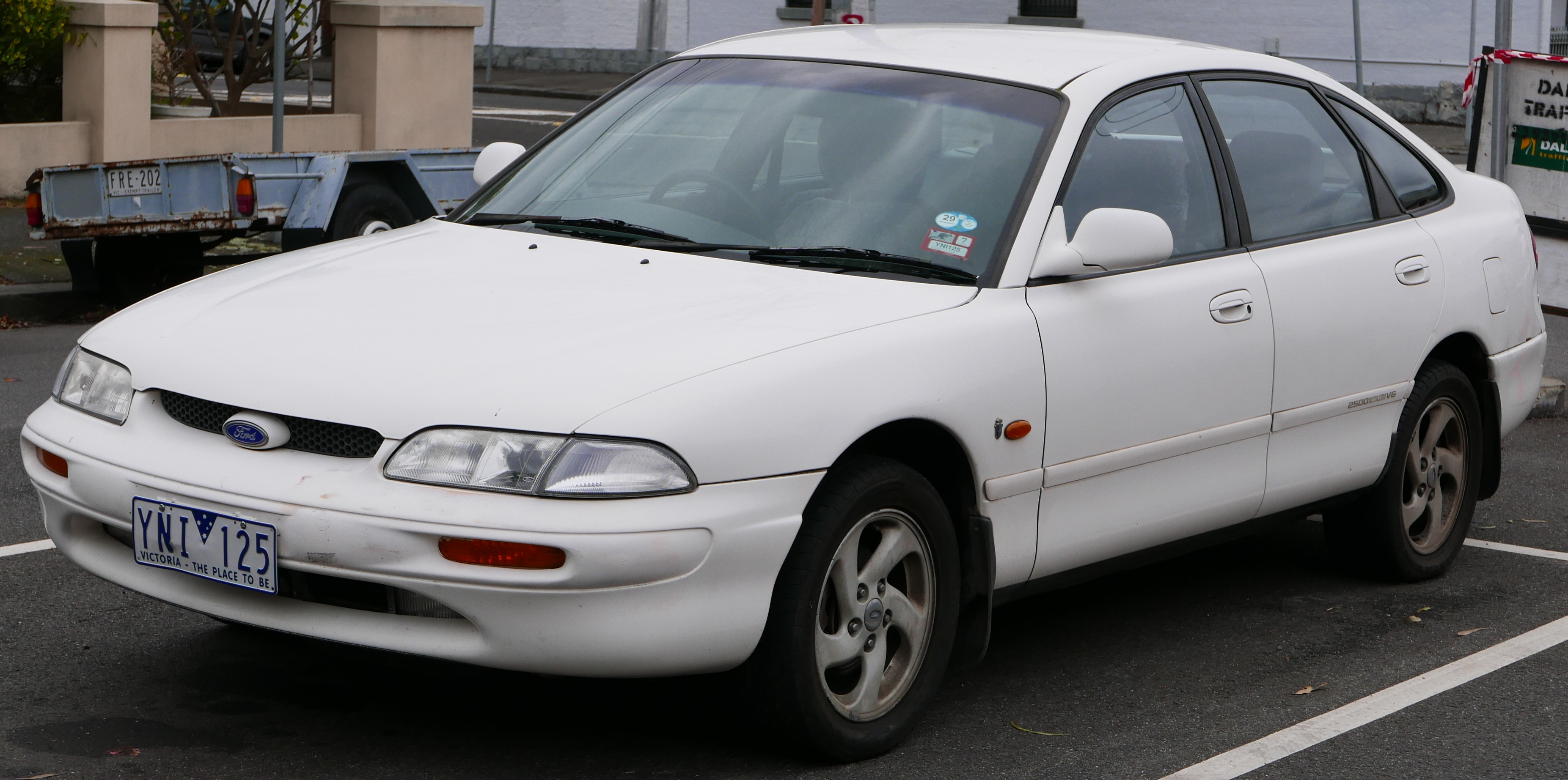 1995 Ford Telstar TX5 (AY) Ghia V6 hatchback. Photographed in Carlton North, Victoria, Australia. Vehicle registration enquiry results Jurisdiction Victoria Registration YNI125 Chassis code JC0AAASHWURG67118 Engine code KL566554 Compliance date 1995-01 Year of manufacture 1995